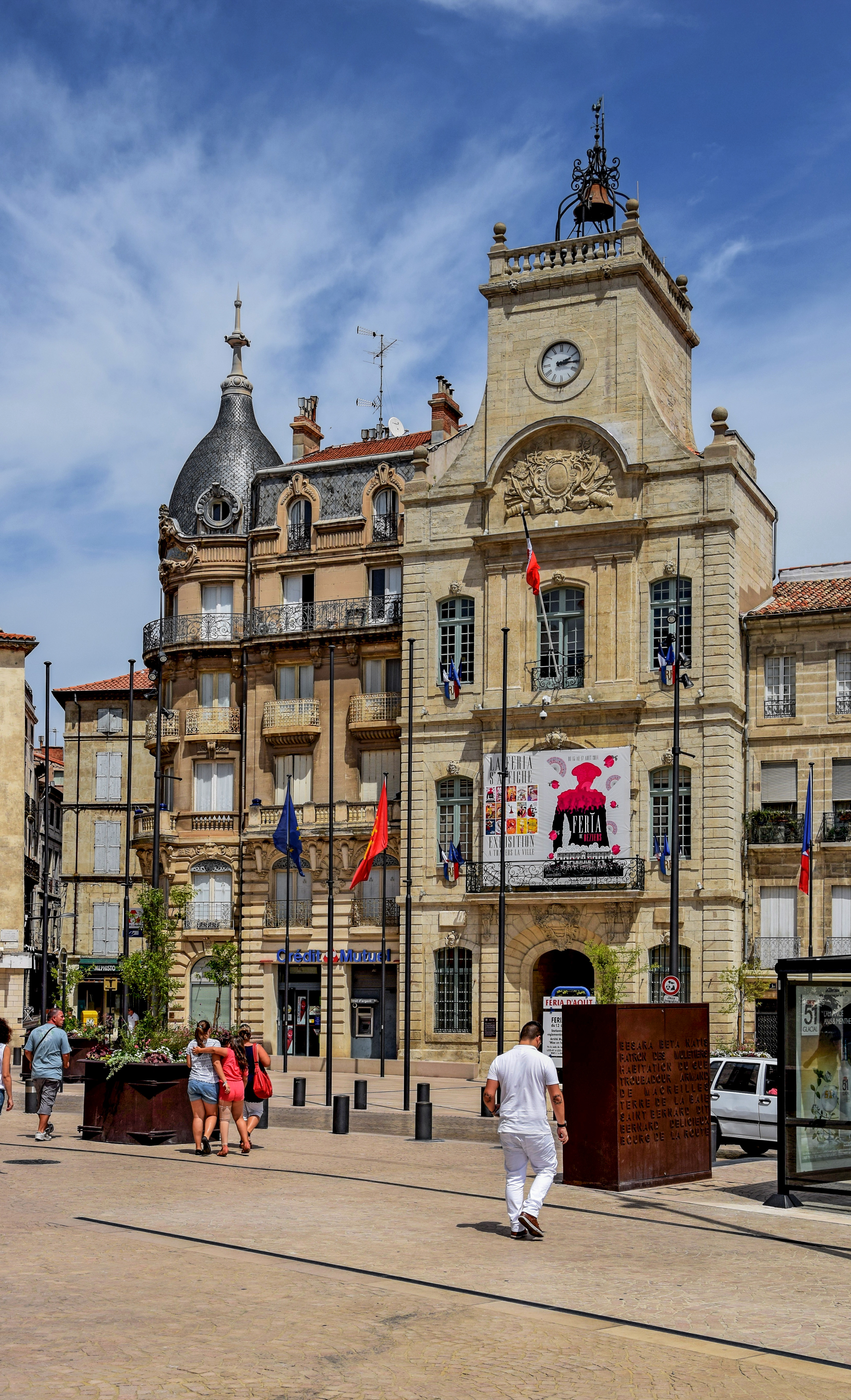 City hall of Béziers, Hérault, France